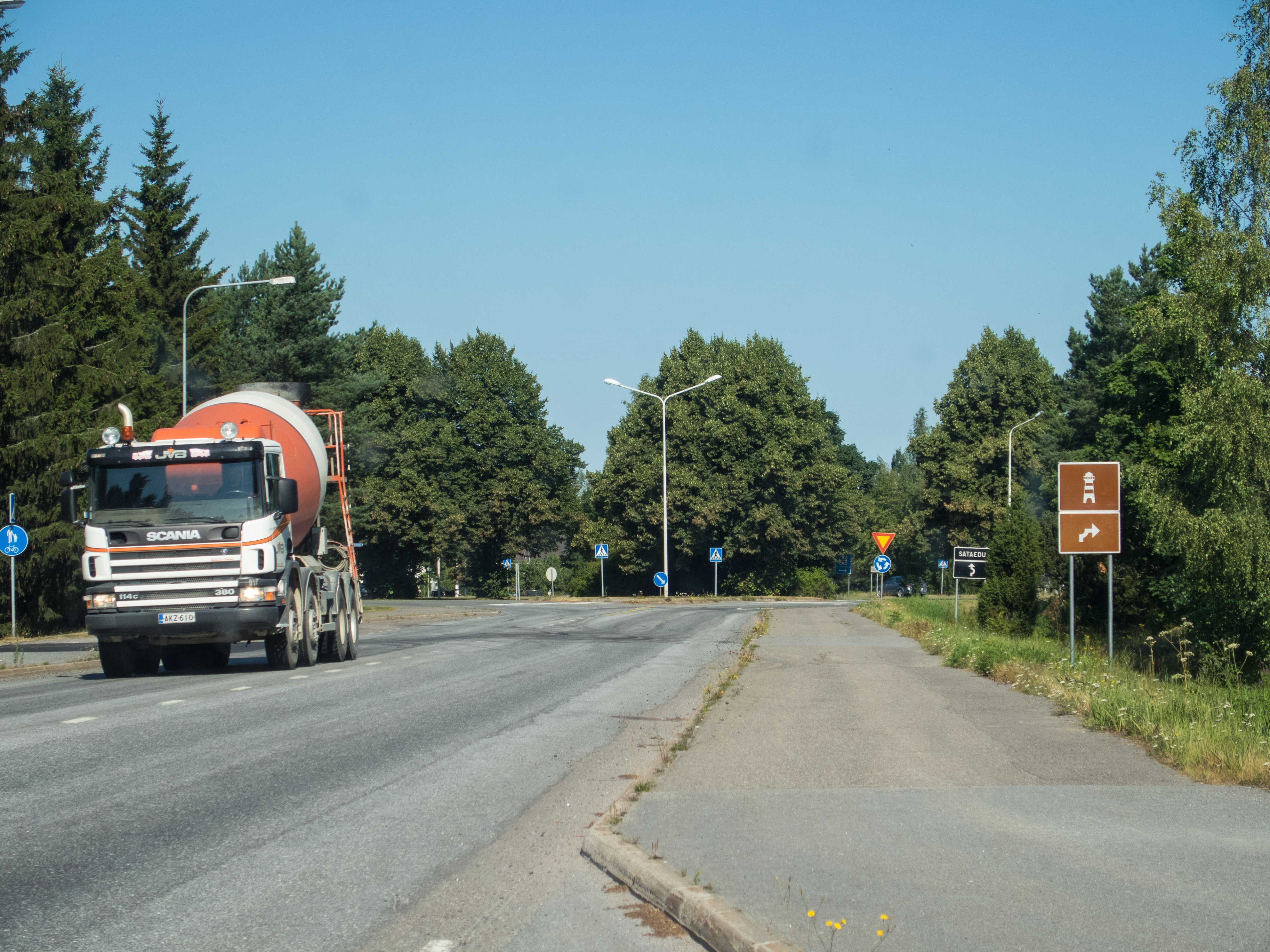 Road 2443 in Friitala, Ulvila, Finland